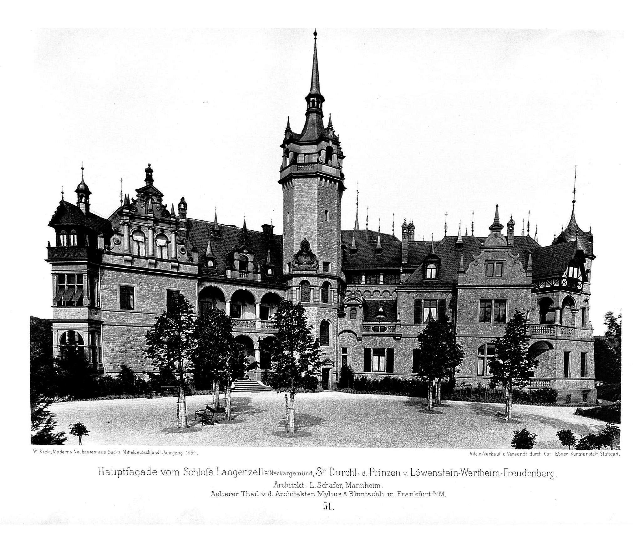 Schloß Langenzell